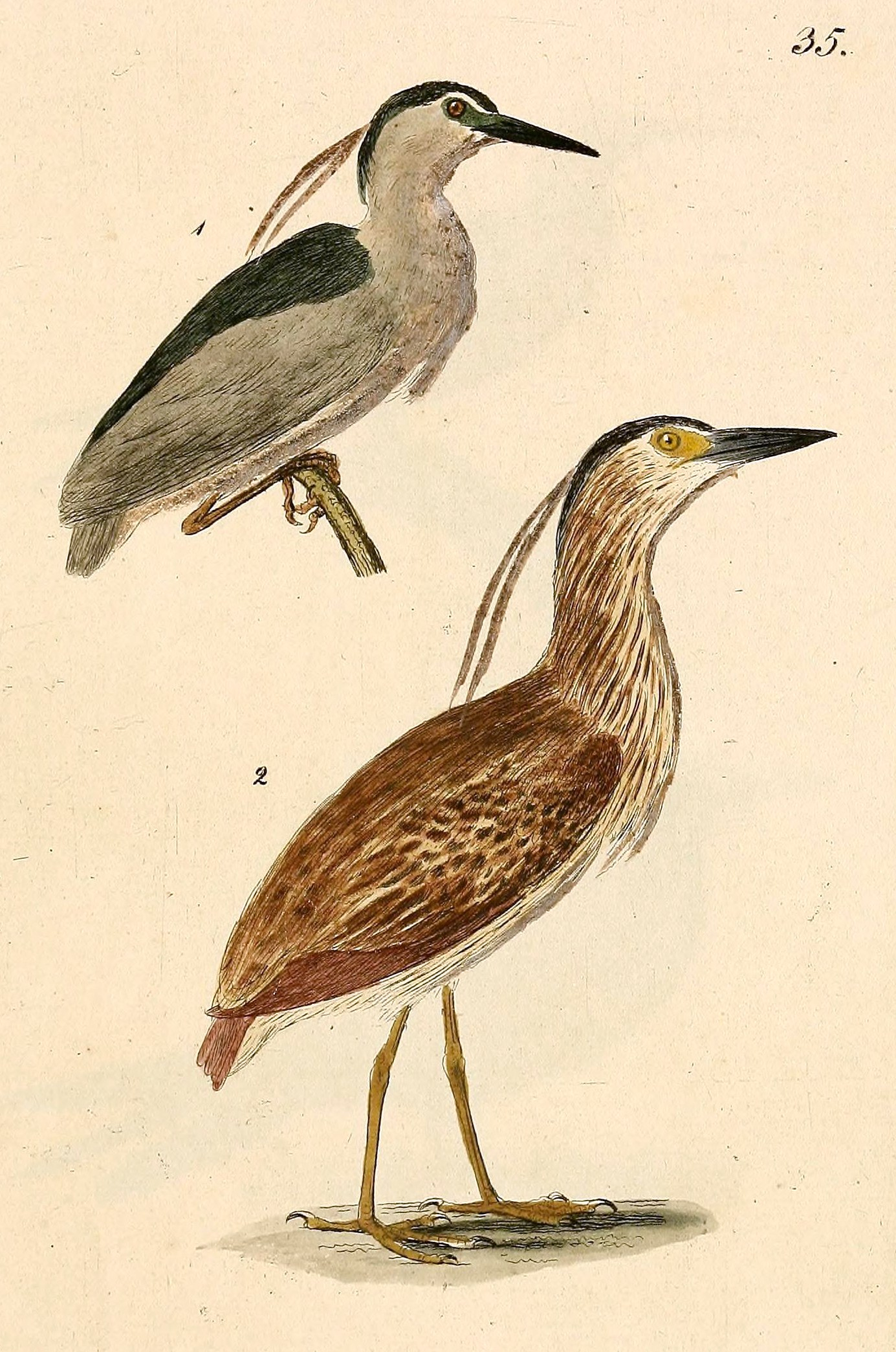 « Ardea nycticorax » = Nycticorax nycticorax (Black-crowned Night Heron) « Ardea caledonica » = Nycticorax caledonicus crassirostris (Subspecies of Nankeen Night Heron)